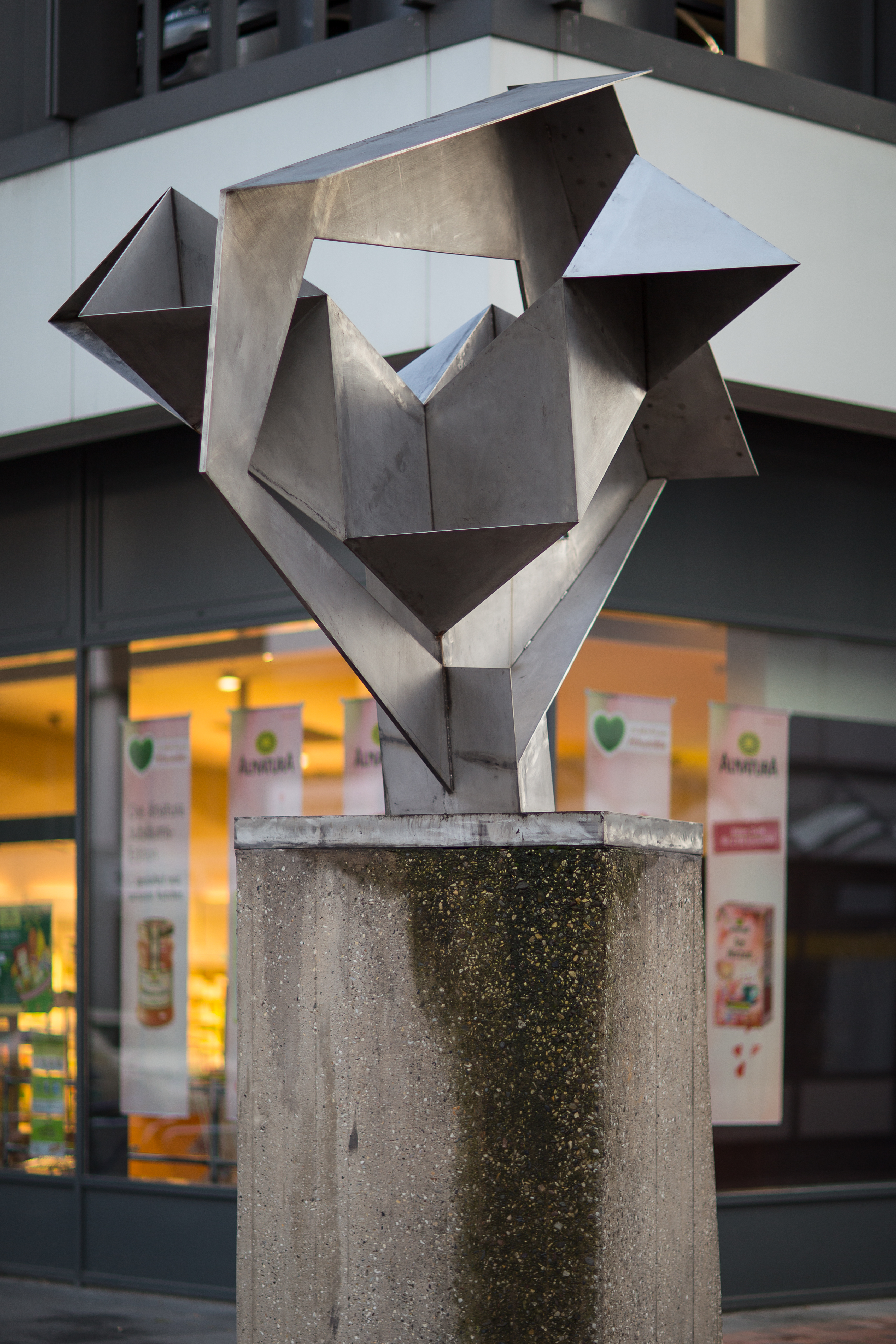 Sculpture "Stahlplastik 1965" by Hans Uhlmann (1900 - 1975) located at Schmiedestrasse in Hanover, Germany.